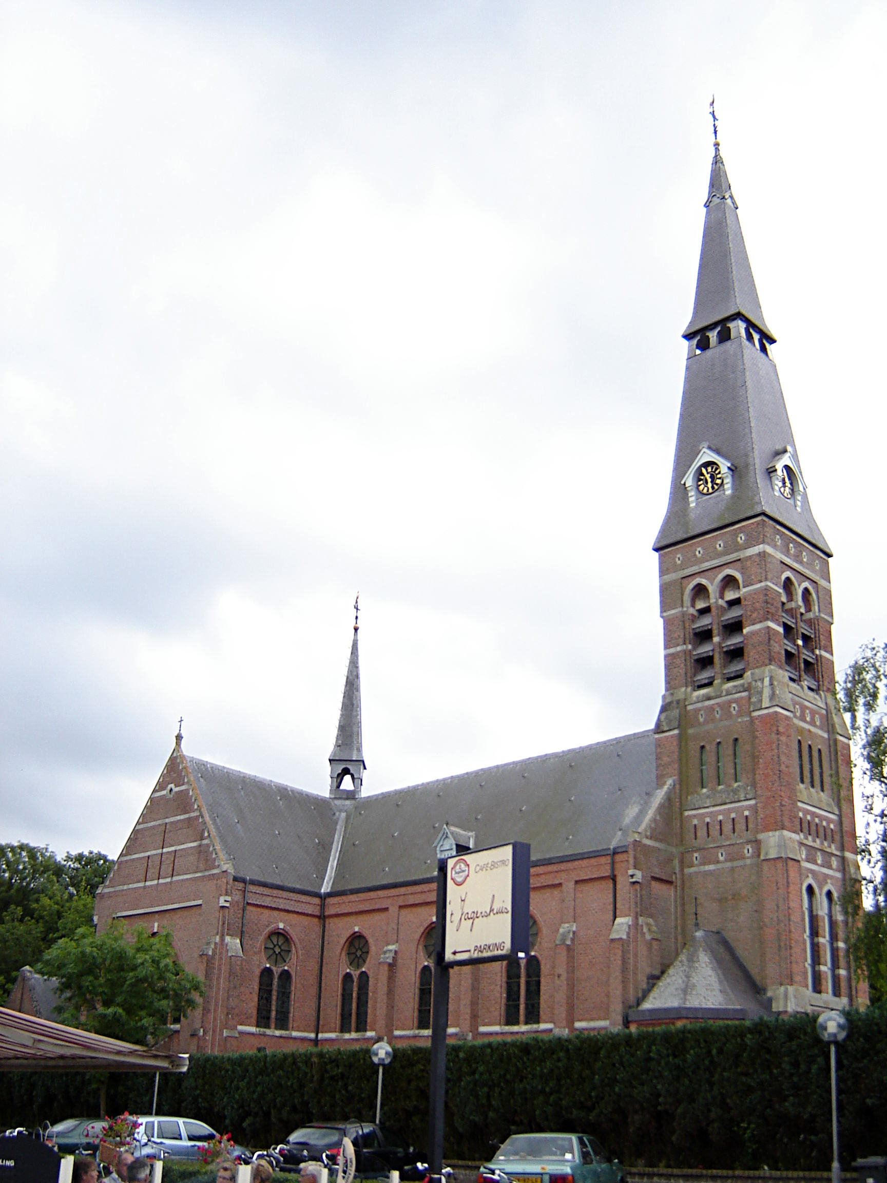 Church of Saint Catherine in Hengstdijk. Hengstdijk, Hulst, Zeeland, Netherlands.